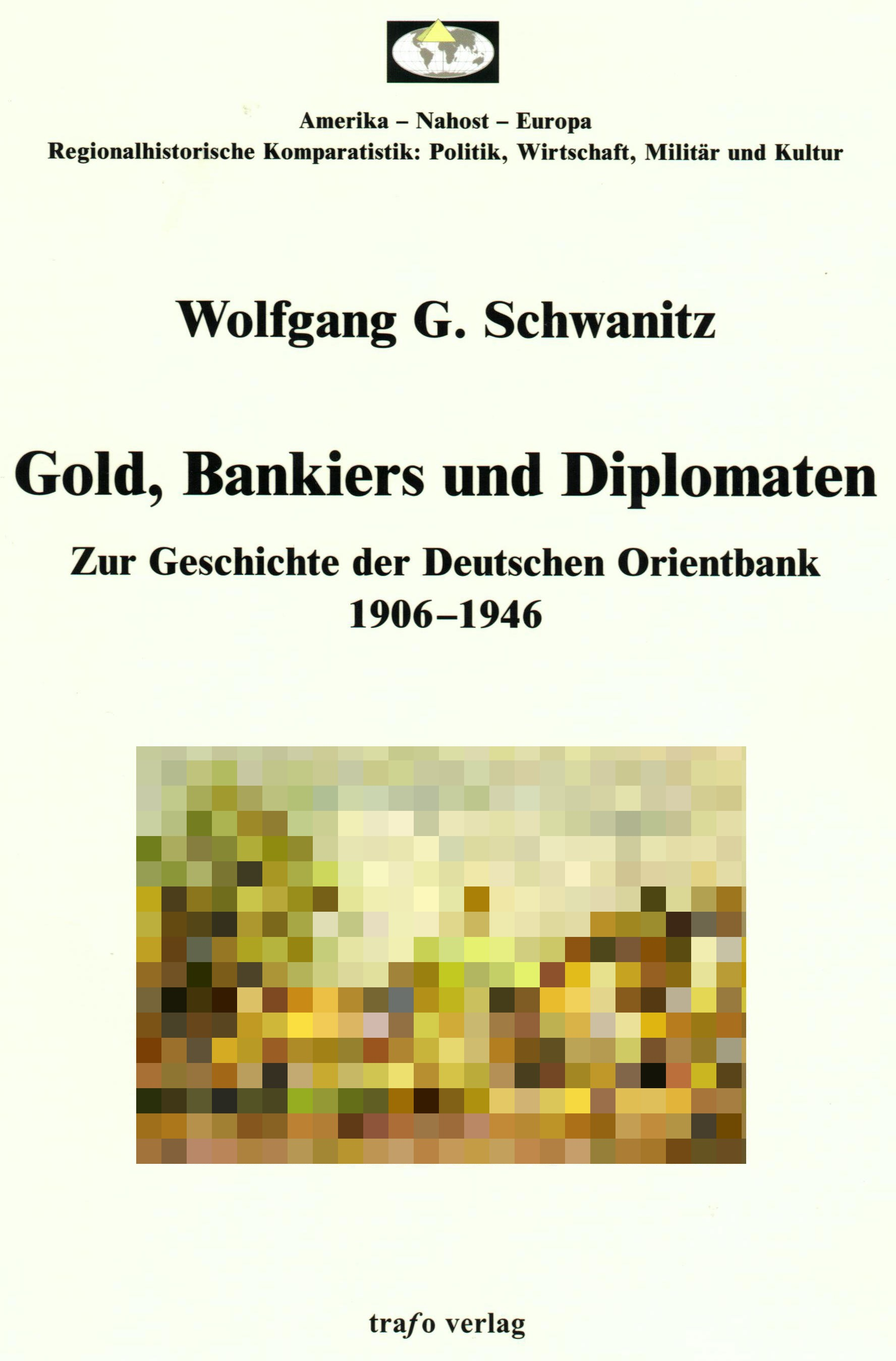 Book cover of "Gold, Bankers and Diplomats: A History Of The German Orient Bank 1906-1946" (Berlin: Trafo Publisher Dr. Wolfgang Weist 2002, German) with global pyramid logo connecting three continents of Wolfgang G. Schwanitz' book series "America--Middle East--Europe." The book series logo was created by Wolfgang Weist according to a suggestion by Wolfgang G. Schwanitz. The painting on a postcard of the St. Hedwig's Cathedral and, on the right, the Dresdner Bank's and the German Orient Bank headquarters in Berlin was created by the German painter Wolfgang Tritt (1913-1983).